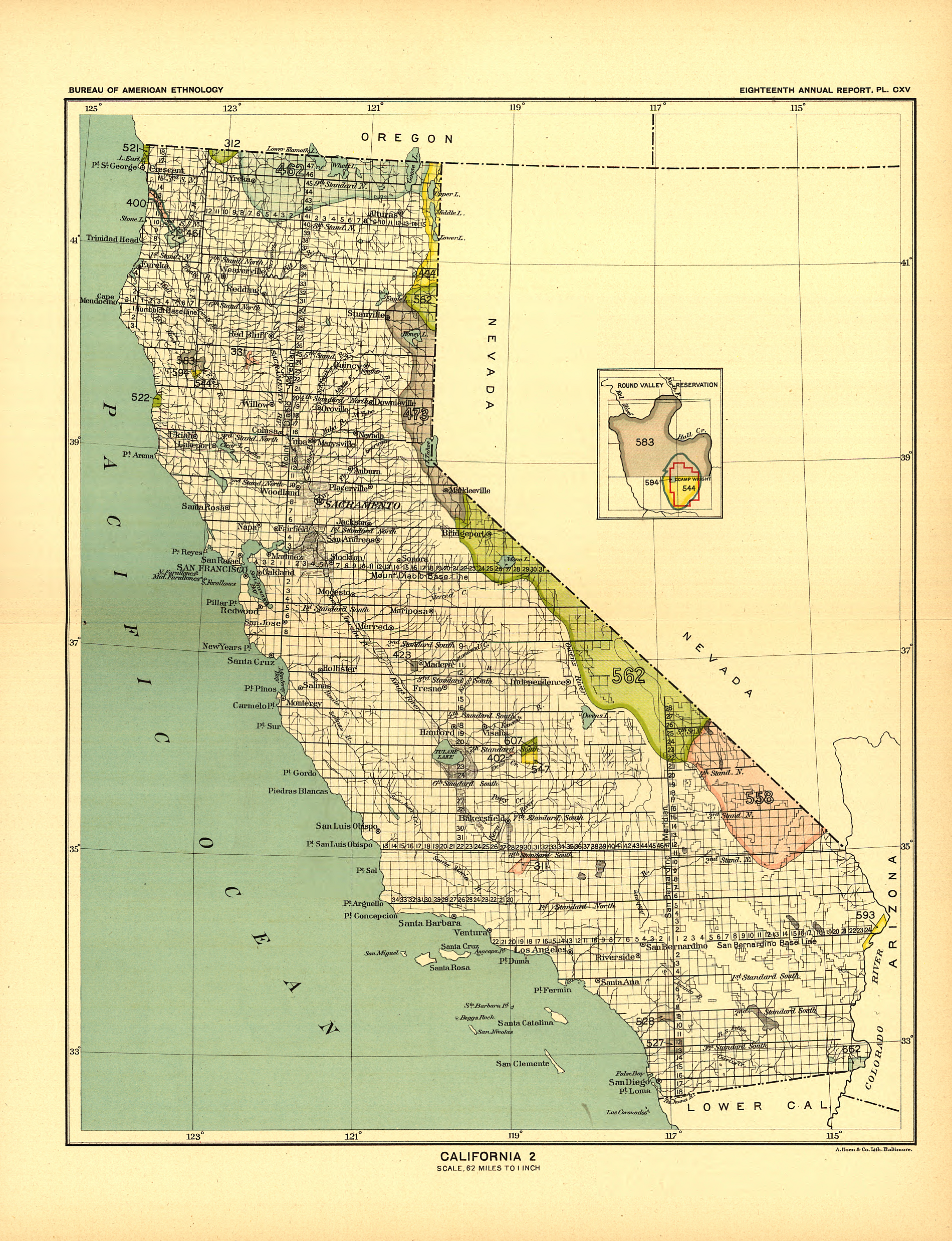 Map 2 of 2: EIGHTEENTH ANNUAL REPORT OF THE BUREAU OF AMERICAN ETHNOLOGY TO THE SECRETARY OF THE SMITHSONIAN INSTITUTION 1896-97 BY J. W. POWELL DIRECTOR IN TWO PARTS-PART 2 Government Printing office 1899 Reports introduction Spreadsheet of Reservations, treaties and cessions and maps linked to each of the above historic events INDIAN LAND CESSIONS IN THE UNITED STATES Compiled Bv Charles C Royce